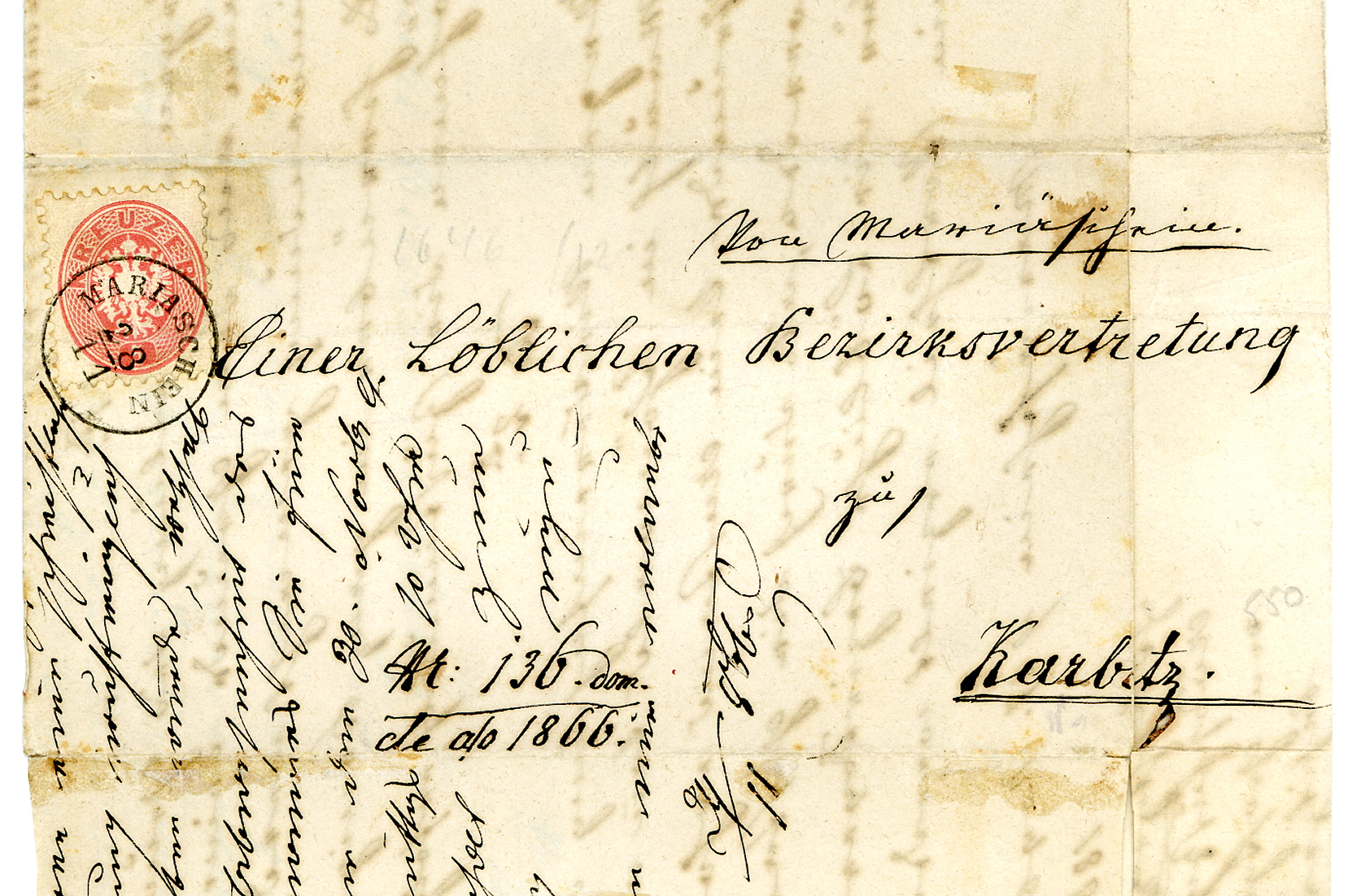 Cover from Austria KK with 5 kreuzer issue 1864, cancelled at MARIASCHEIN (Bezirk Aussig, now Bohosudov) in 1866. Text in German (Sudetenland).